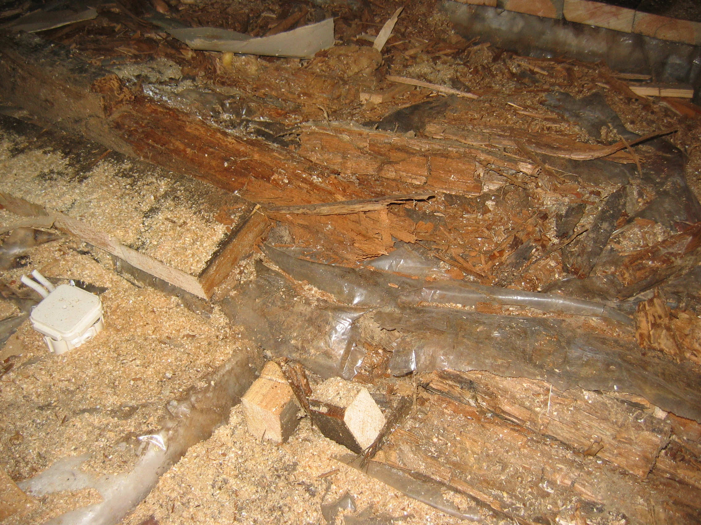 Rotten wooden floor of a summer house, decayed due to plactics installed under the floor that entirely prevented ventilation.